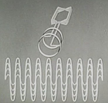 Armature of revolving armature single-phase generator with 4 windings. This creates in-phase AC output for those windings which increases the voltage of the output 4 times.